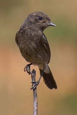 Pied Bushchat (female) Saxicola caprata